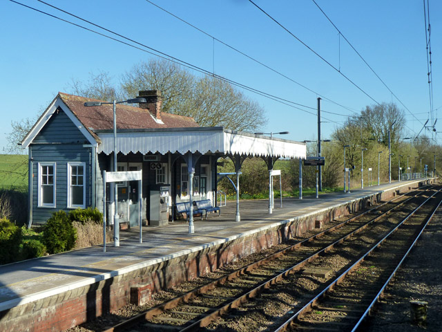 Station building, Elsenham. One of two buildings on the up platform, which was, for a period, an island platform with the branch from Thaxted curving in behind the building. It is a grade II listed building.